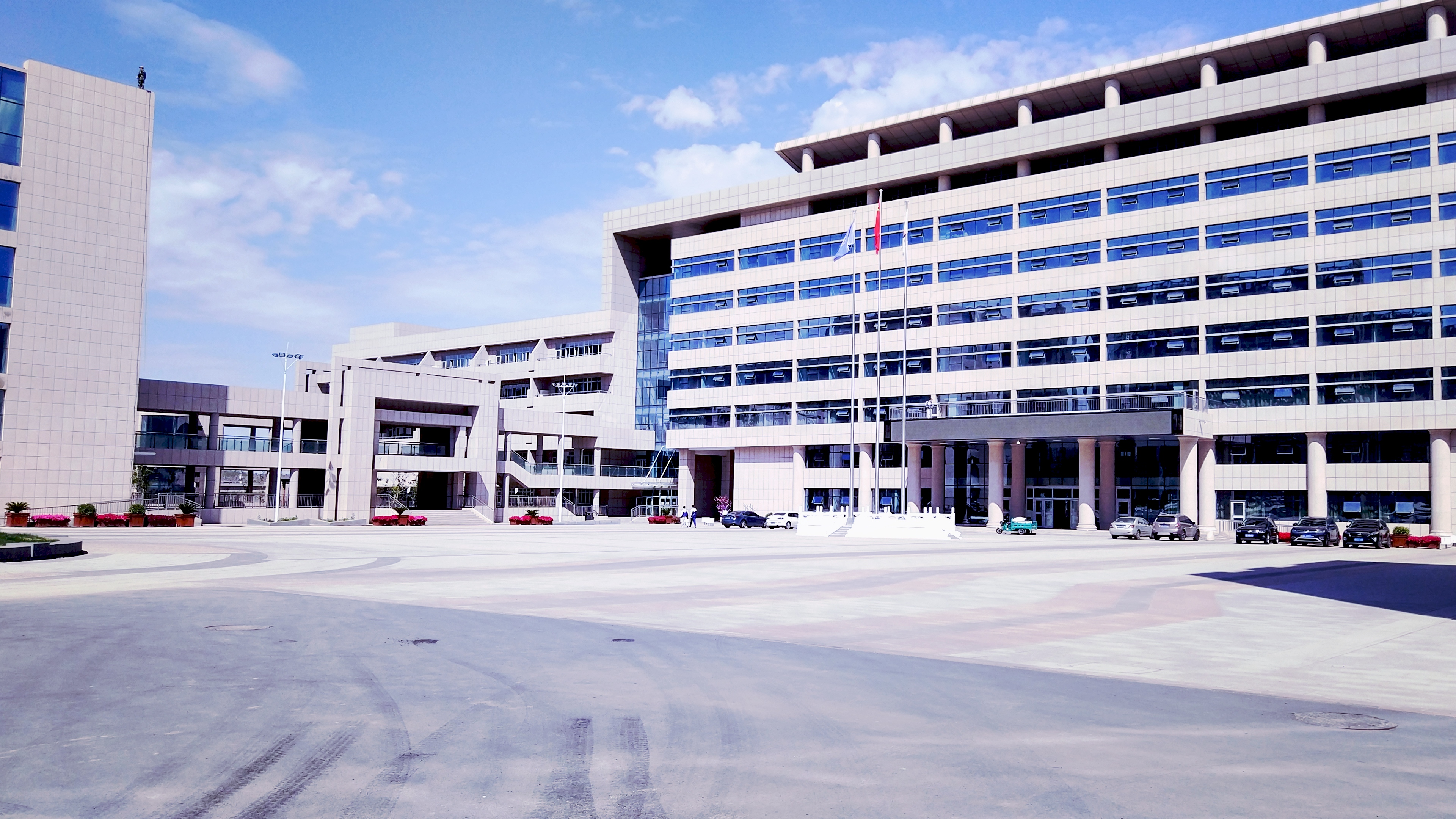 The Office Building with one of the Teaching of the on the left. The partial building on the left of the picture is the side of the Science Building.